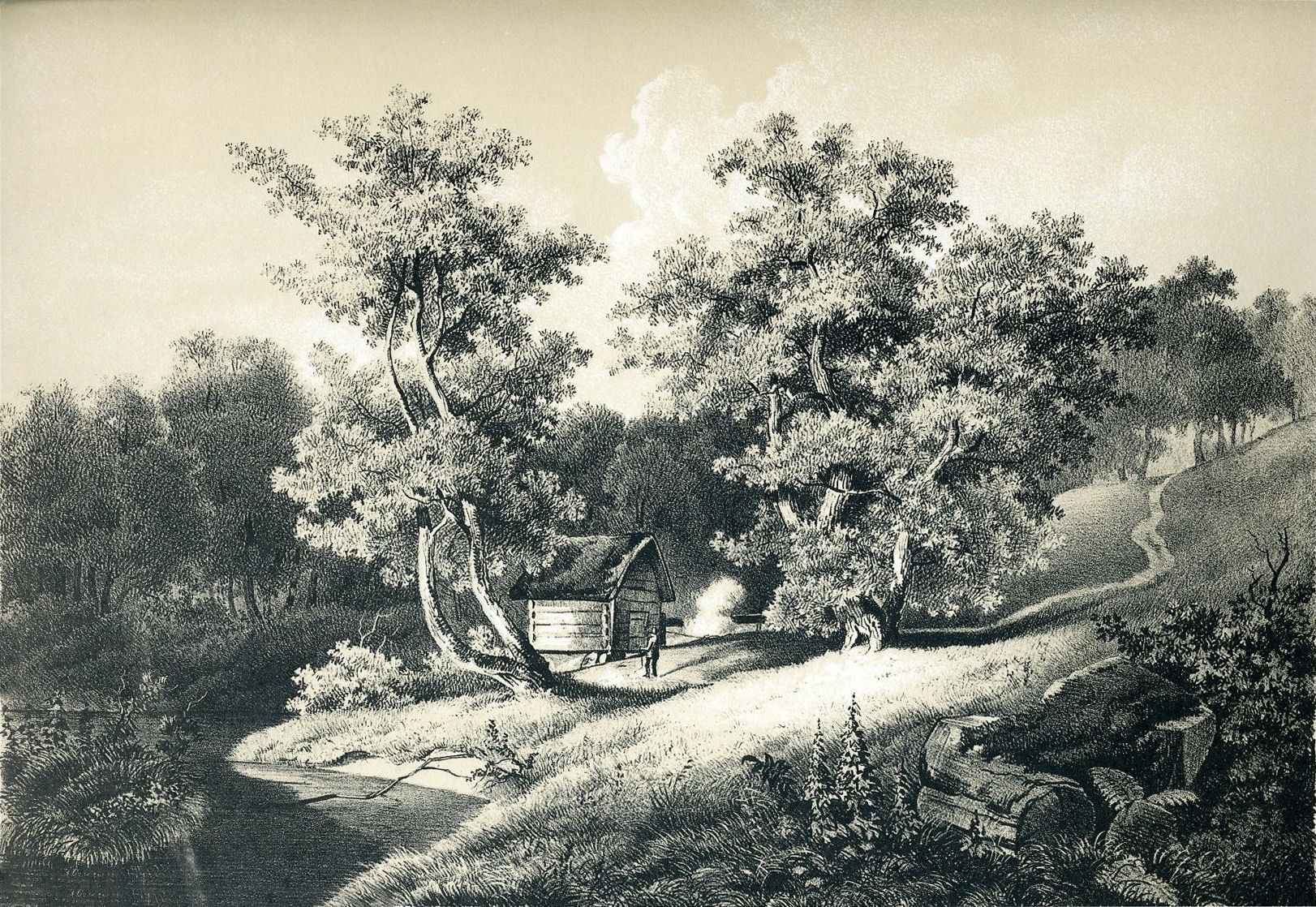 Picture from the work "Norge fremstillet i Tegninger" by Asbjørnsen, P.Chr., published by Chr. Tønsberg (no, 1848). Bondalen, Ørsta municipality, Møre og Romsdal county, Norway.